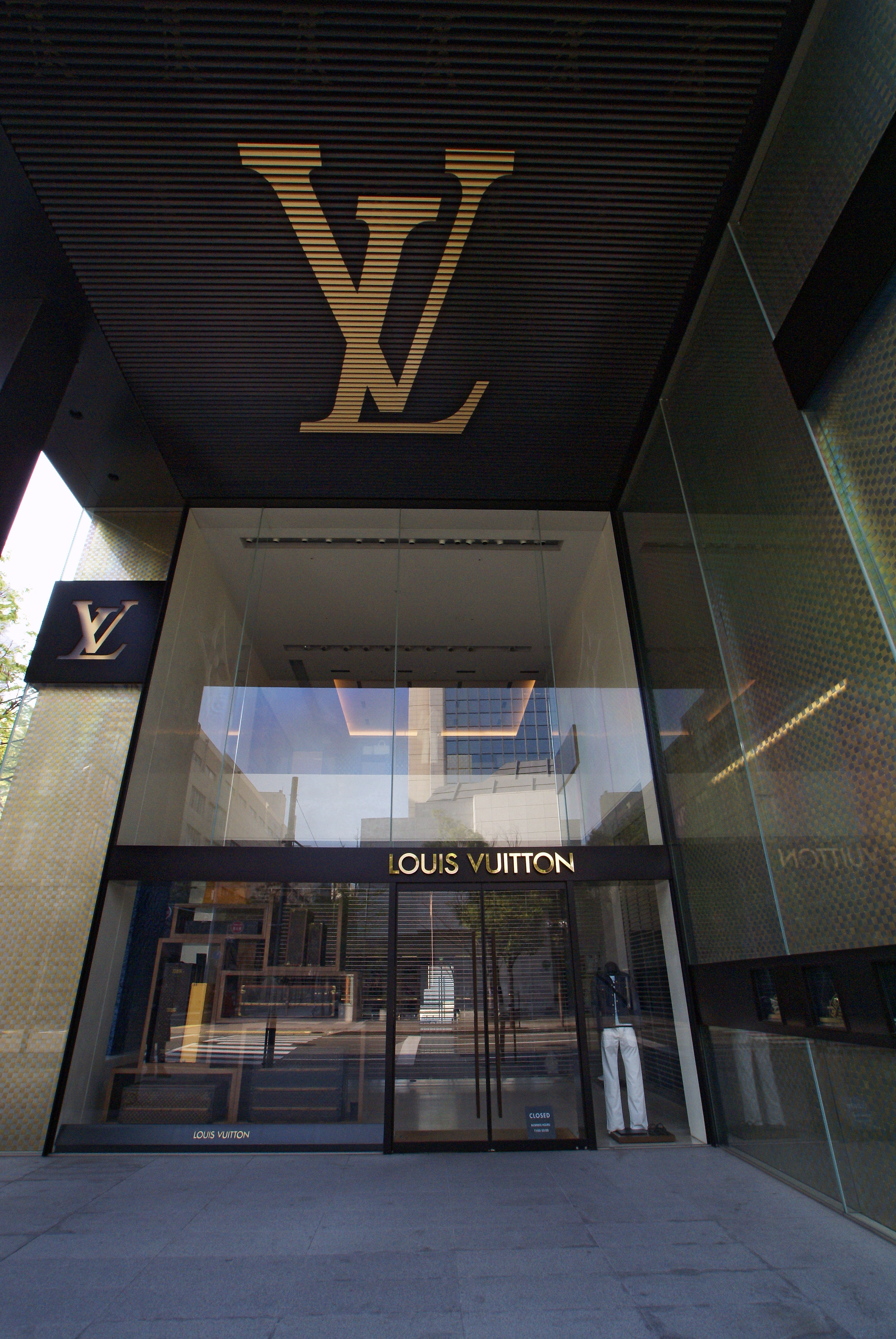 LVMH Building (Berluti, FENDI, Louis Vuitton) in Kobe, Hyogo prefecture, Japan